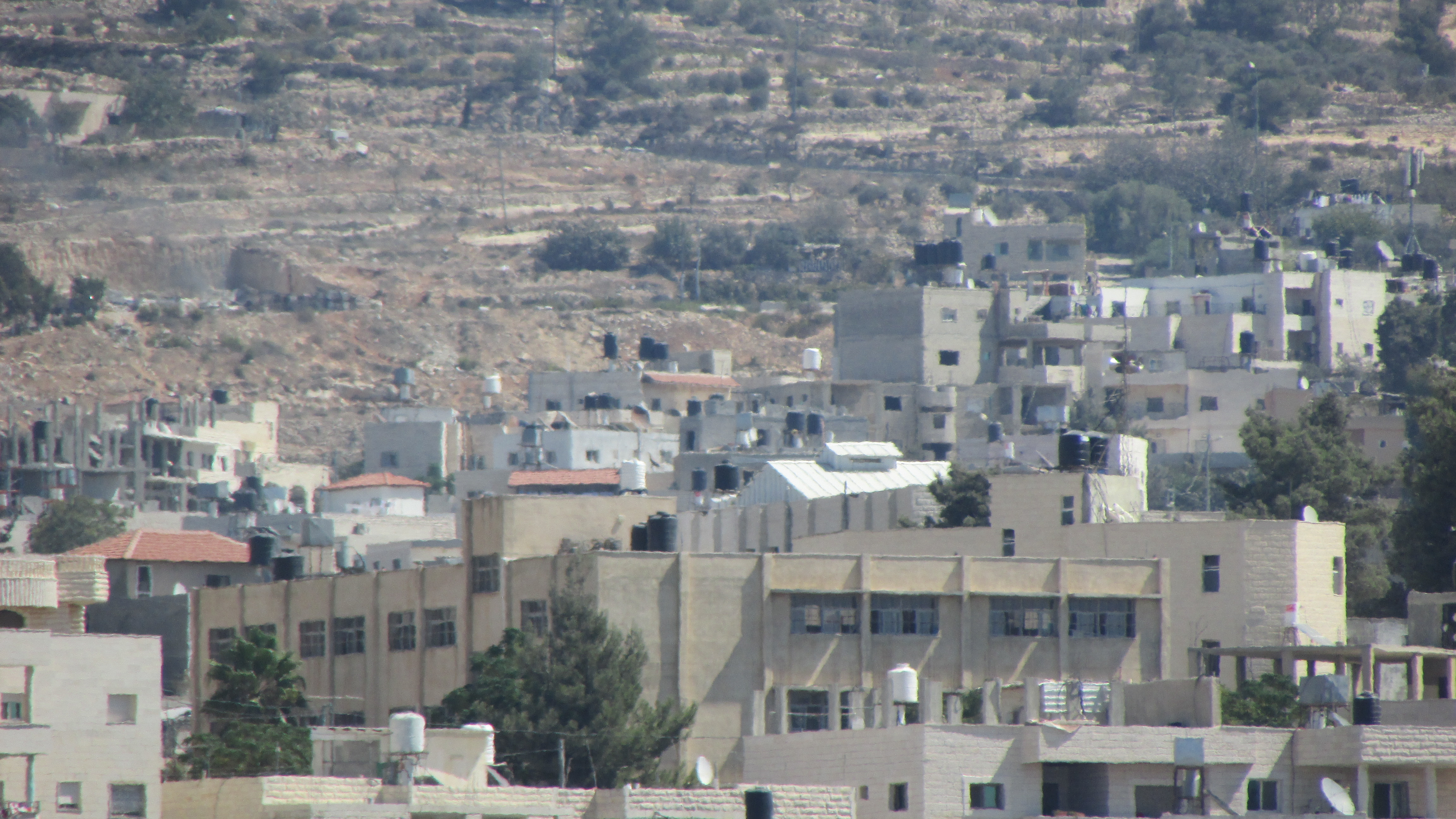 Husan from the west